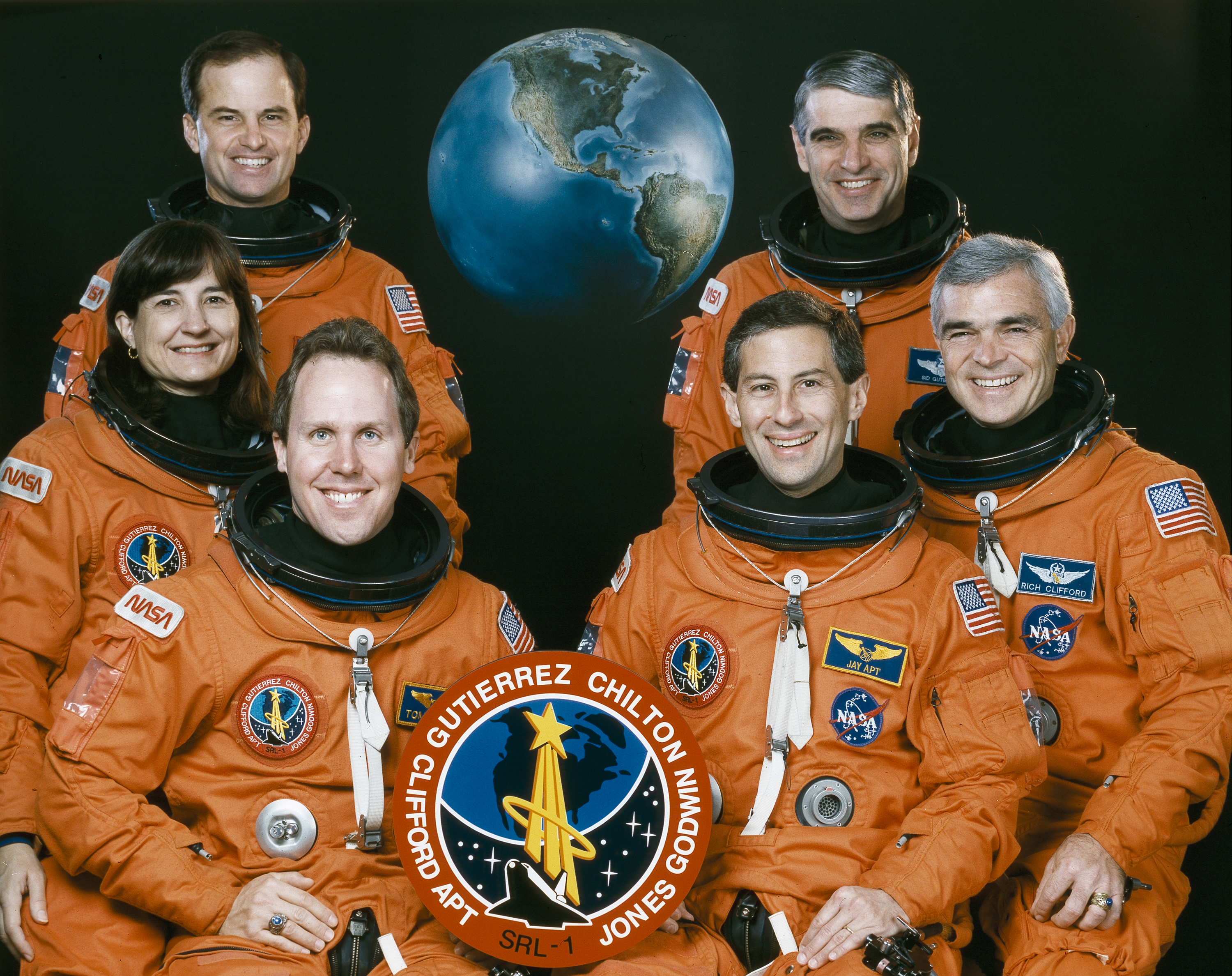 Astronauts included in the STS-59 crew portrait include (standing in rear, left to right) Kevin P. Chilton, pilot; and Sidney M. Gutierrez, commander. Seated left to right are Linda M. Godwin, payload commander; and mission specialists Thomas D. Jones, Jay Apt, and Michael R. Clifford. Launched aboard the Space Shuttle Endeavour on April 9, 1994 at 7:05:00 am (EDT), the STS-59 mission deployed the Space Radar Laboratory (SRL-1).